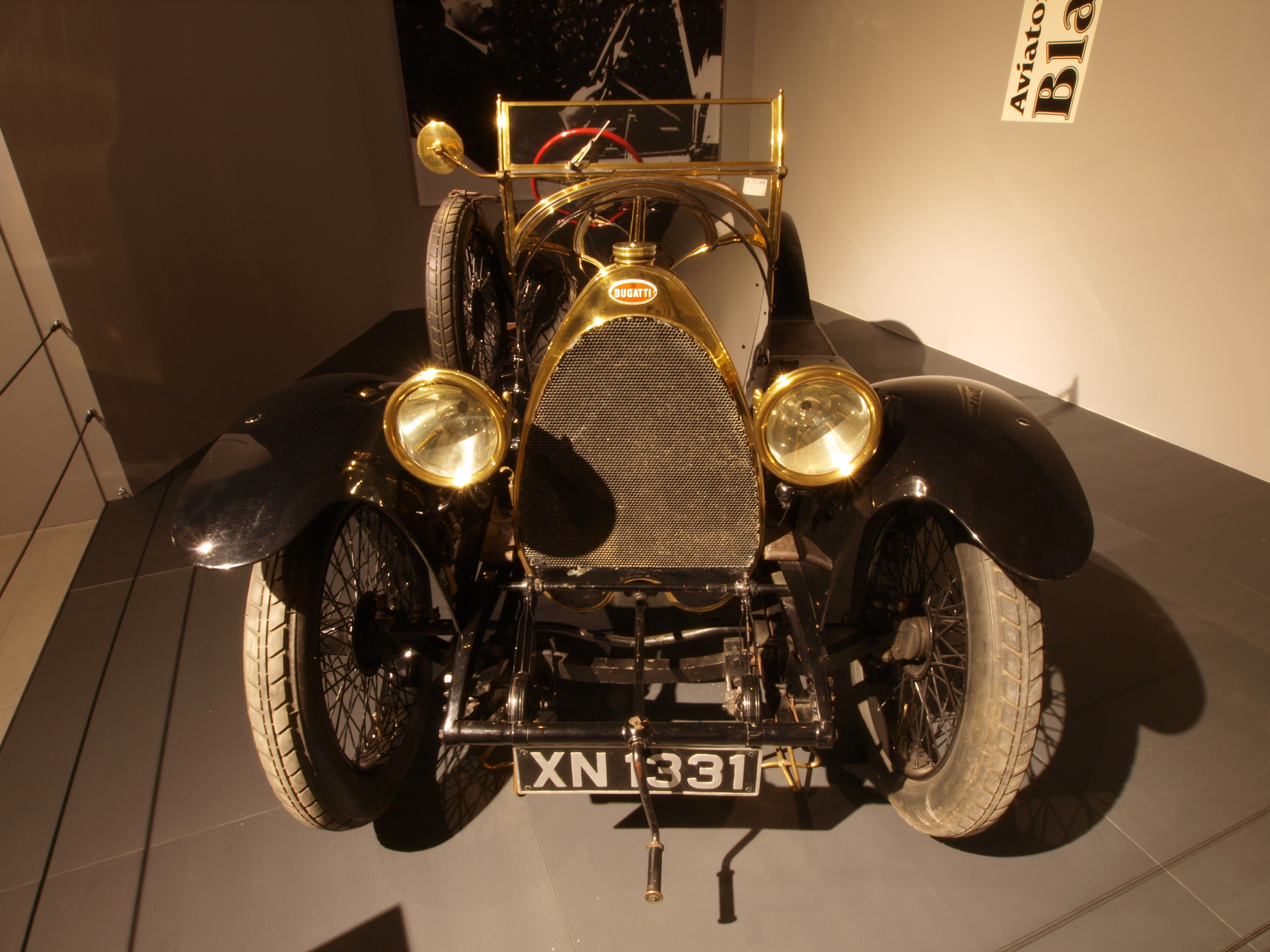 Photographed at the Louwman museum / Louwman Collection, The Netherlands.